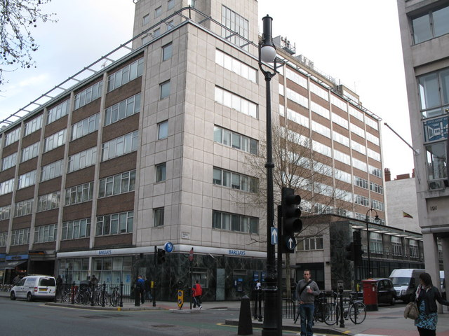 Tottenham Court Road / Torrington Place, WC1 Shows the location of 1289541.The building at 1/19 Torrington Place was known as Mullard House - it was the corporate HQ of Mullard Co.